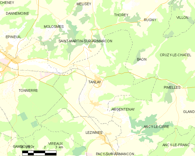 Map of French municipality Tanlay